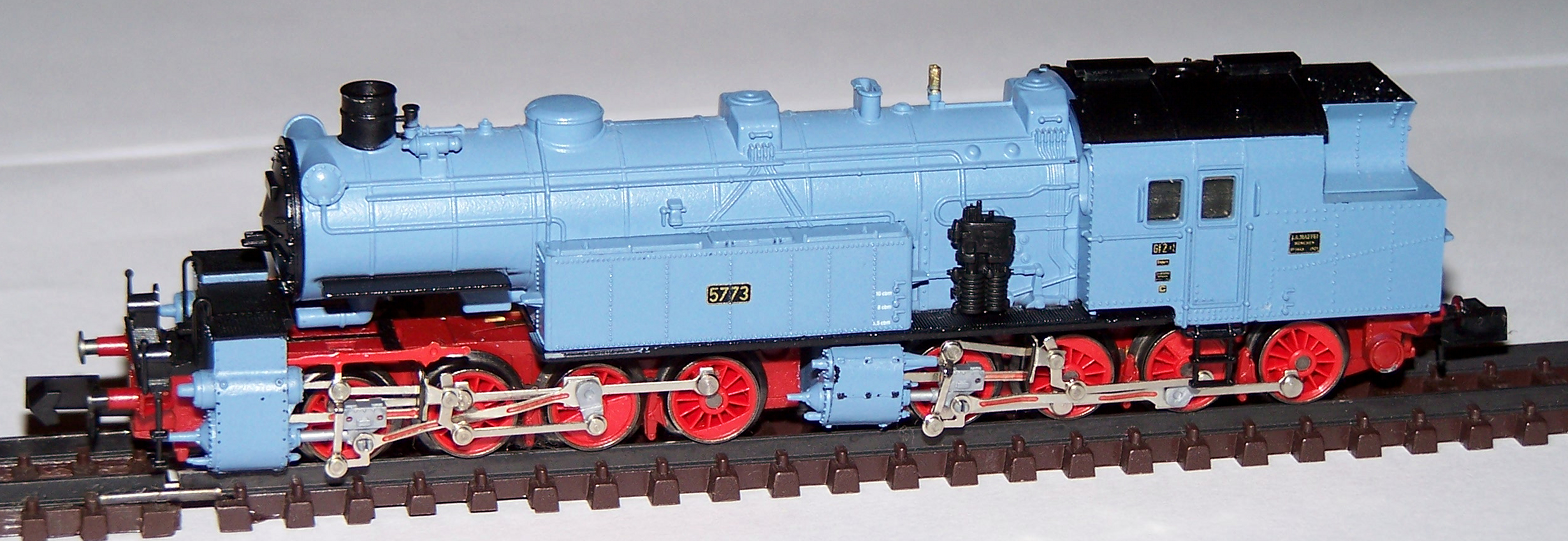 Model of the 96 023 (ehemalige 5773 der K.Bay.Sts.B) in N Scale made by Arnold-N